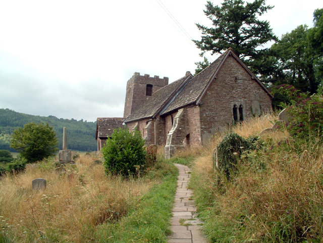 St Martin’s Church, Cwmyoy, Monmouthshire, Wales